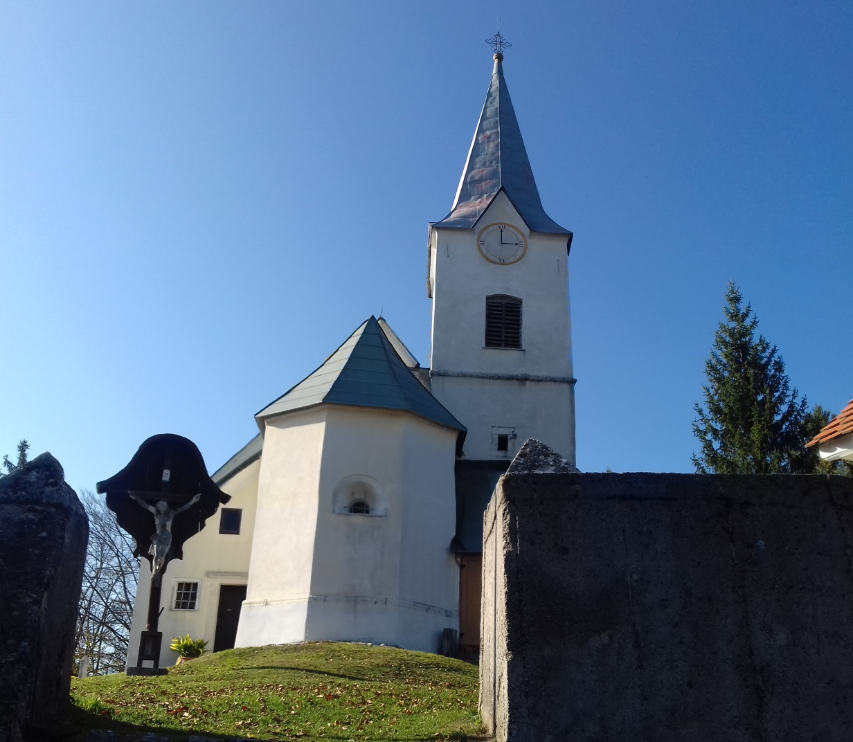 Saint George's Church in Gore (ever Sv. Jurij, St. Georgen), Slovenia (maker: Peter Šoper, 26. 10. 2019.)